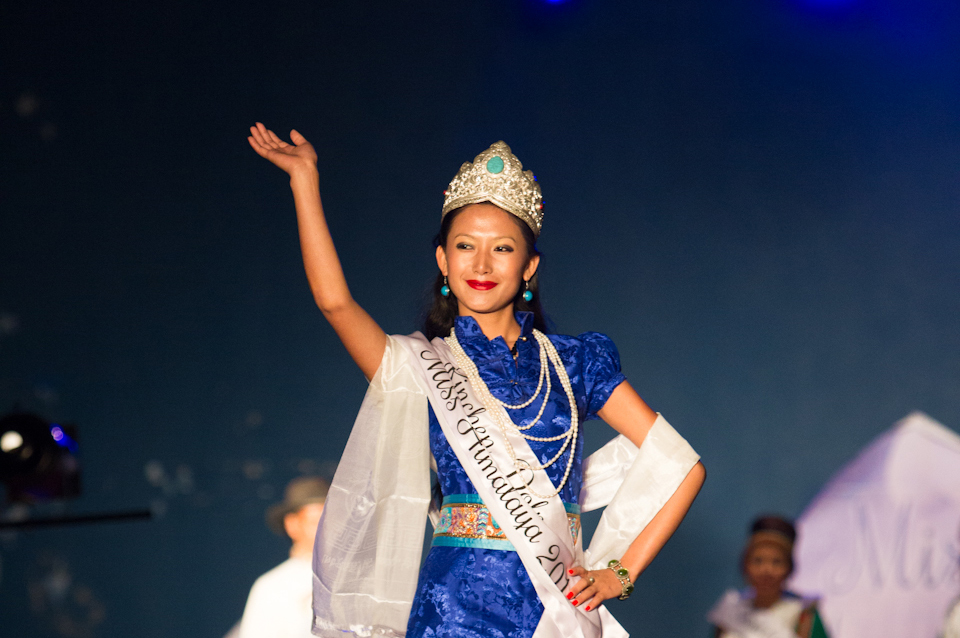 Rinchen Dolma waving to the crowd after being crowned Miss Himalaya 2012.